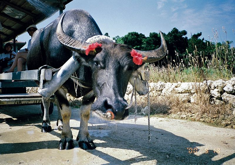 A water buffalo for buffalo-car at Taketomi-jima(Taketomi-island),Okinawa,Japan. this is a picture that I (the author,田英)took by myself in 18th September,2000.